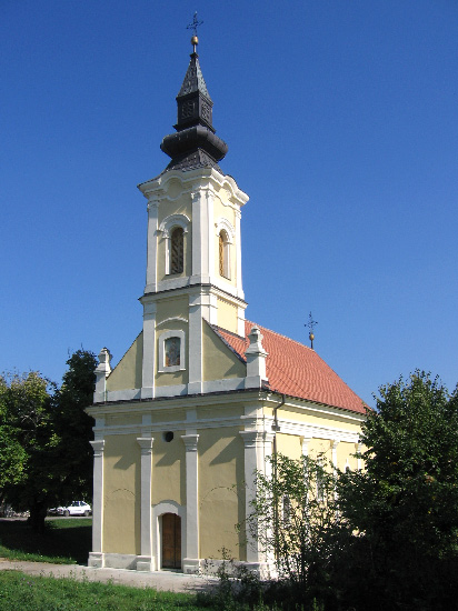 Suljam orthodx church